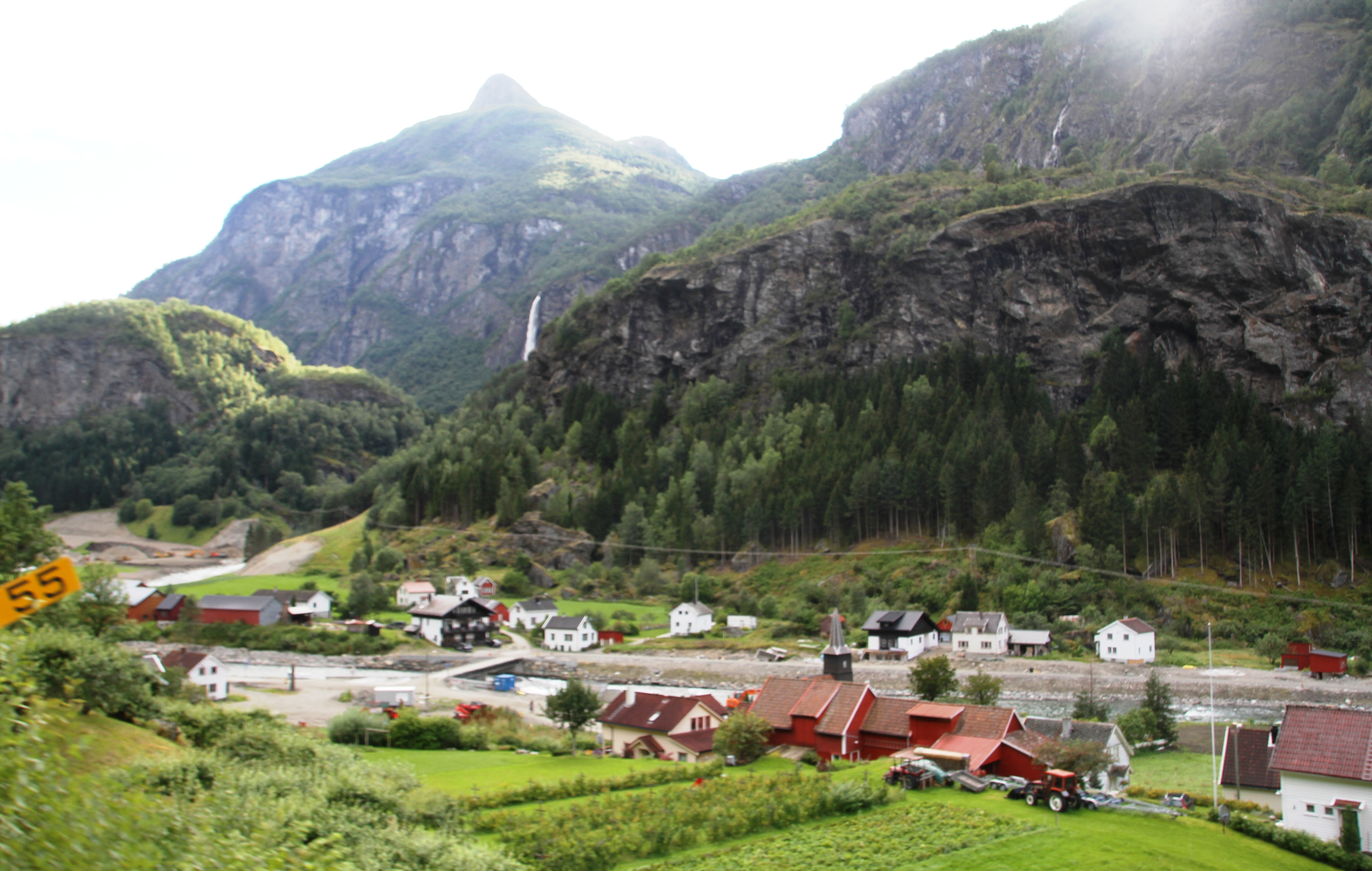 Flåm township with Flåm Church, in Aurland municipality, western Norway.